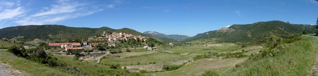 Panoramic view on Cucugnan, Aude département, France